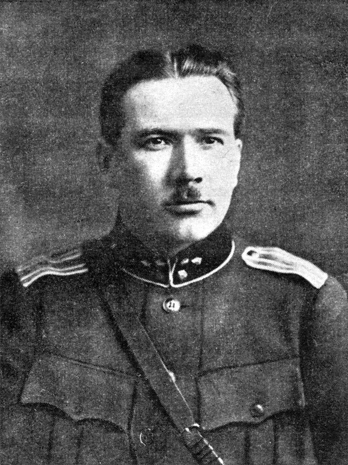 Captain Johannes Roska (Orasmaa).